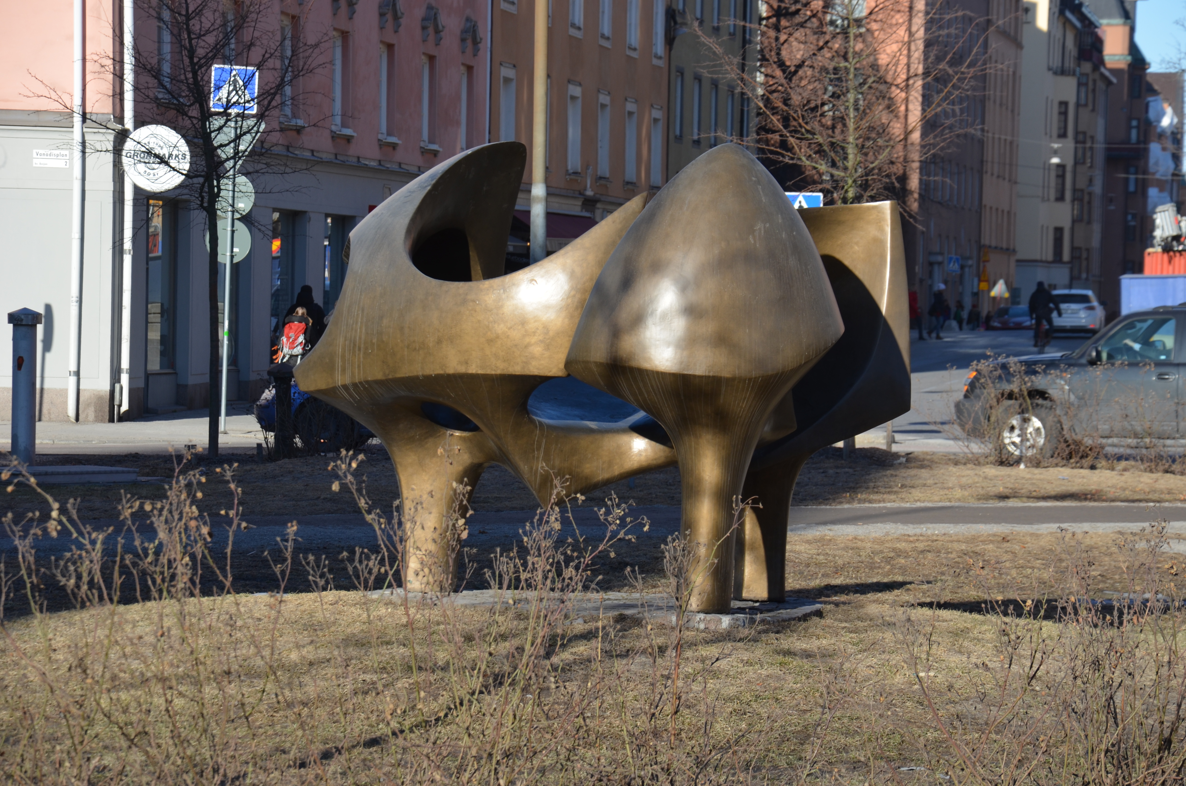 Förvandlingar av Christopher Gibson, 1984, Vanadisplan, Stockholm